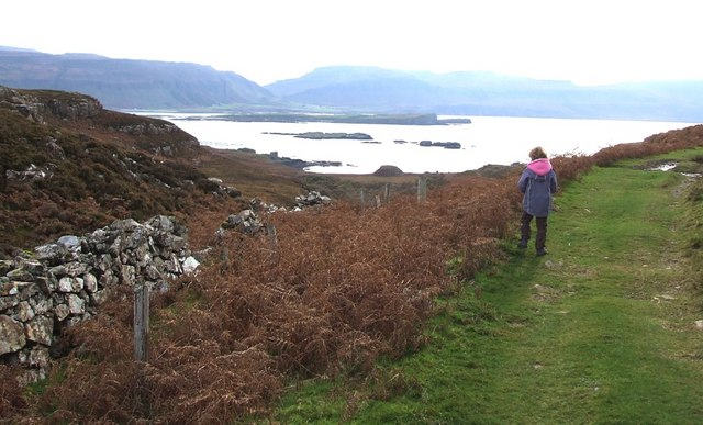 View from the path to Ormaig Looking across the enormous inlet of Loch na Keal to the mountains of the Ross of Mull. The nearer islets are Geasgill Mor & Beag, while the longer island behind them is Inch Kenneth. Isle of Ulva, Inner Hebrides.